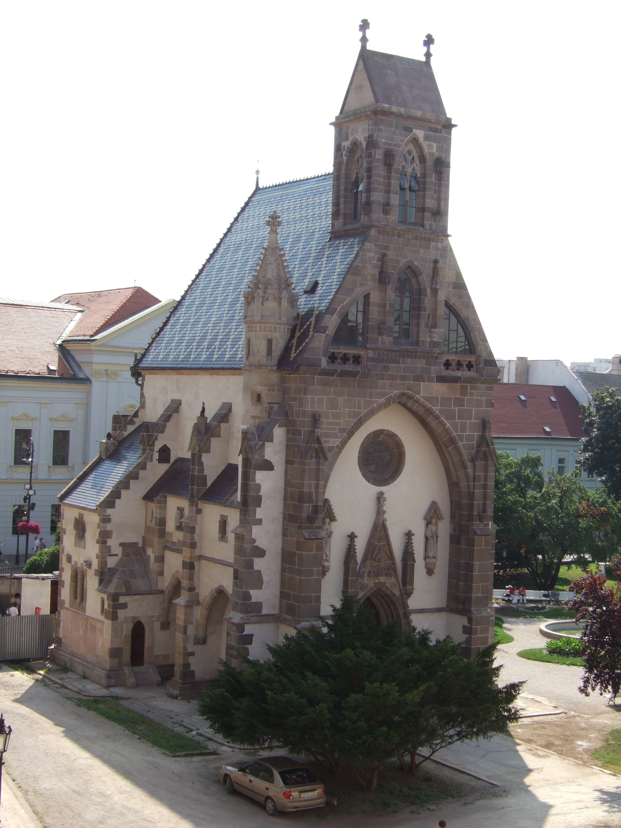 St. Michael‘s Chapel in Košice, Slovakia This medium shows the protected monument with the number 802-1117/2 in the Slovak Republic.